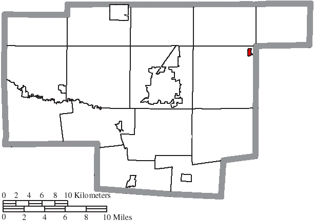 Map of the municipal and township boundaries of Marion County, Ohio, United States, as of the 2000 census, with the location of the village of Caledonia highlighted. Township borders are shown only in unincorporated areas in order to differentiate incorporated and unincorporated areas more clearly.